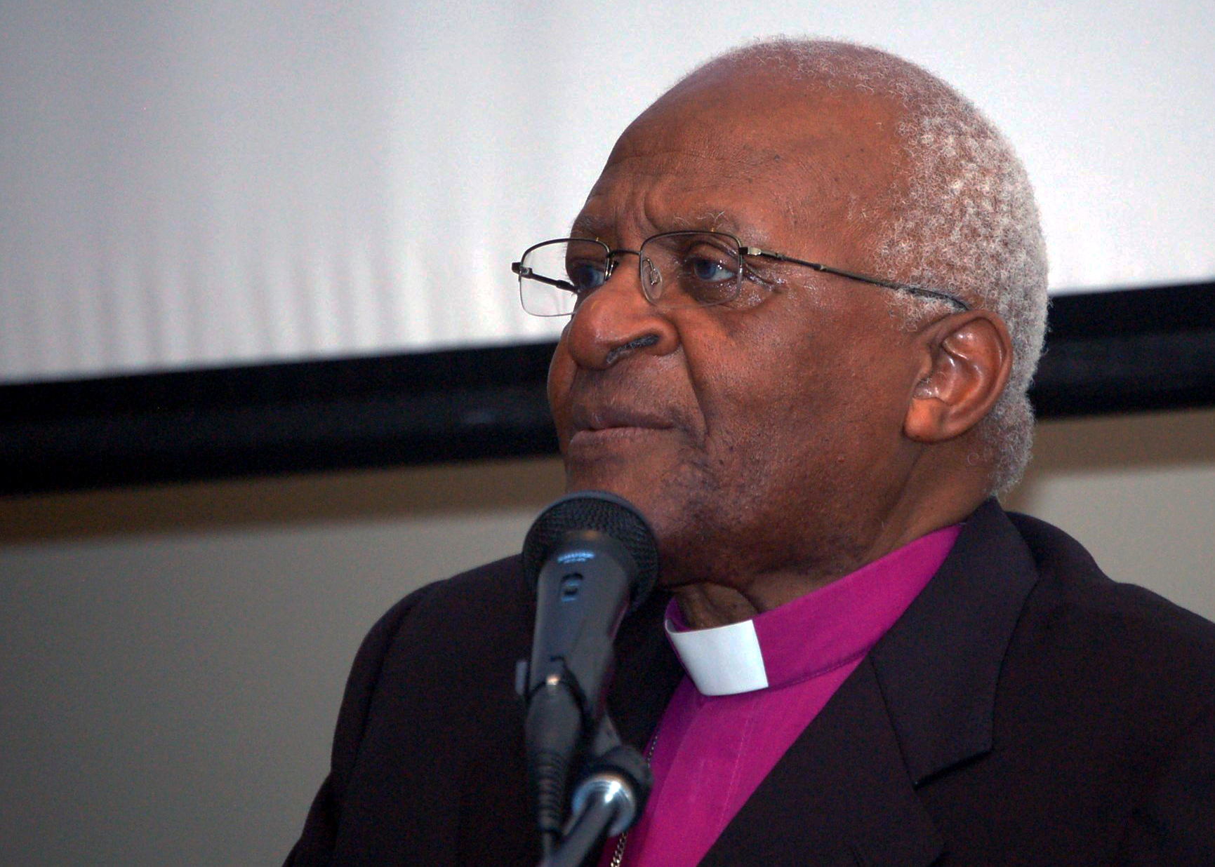 South African Anglican Archbishop Desmond Tutu delivered a speech at the first International Ethics Conference at the University of Botswana.